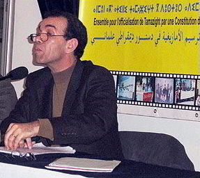 Ahmed Aassid in an interview with Magharebia (april 2006)